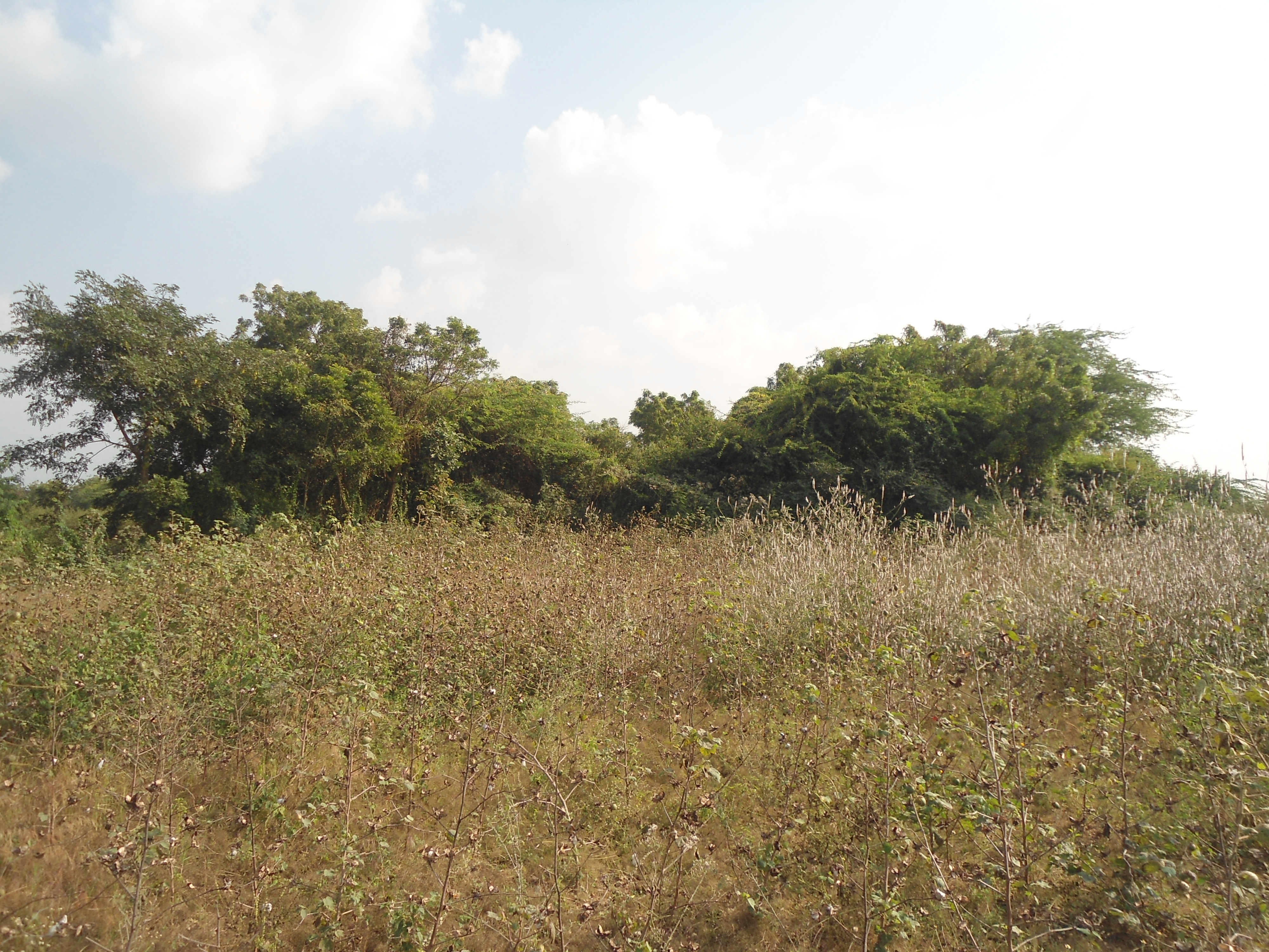 Garikapadu Buddhist Stupa, Krosuru mandal, Guntur district